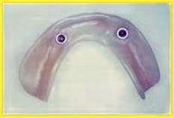 Lower cover denture (seen from underside)